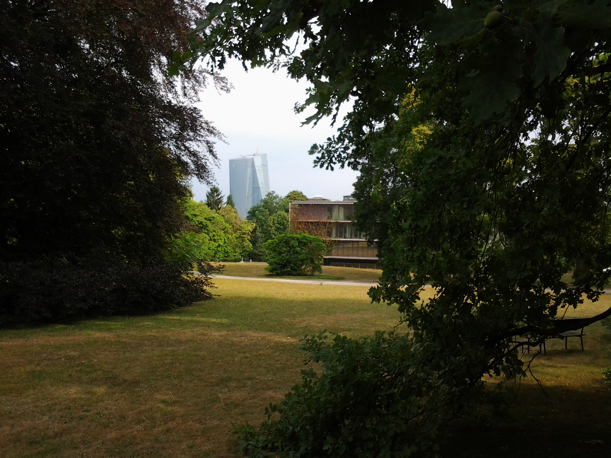 Park of Sankt Georgen Graduate School of Philosophy and Theology in Frankfurt am Main. View of the European Central Bank and the Sankt Georgen classroom building